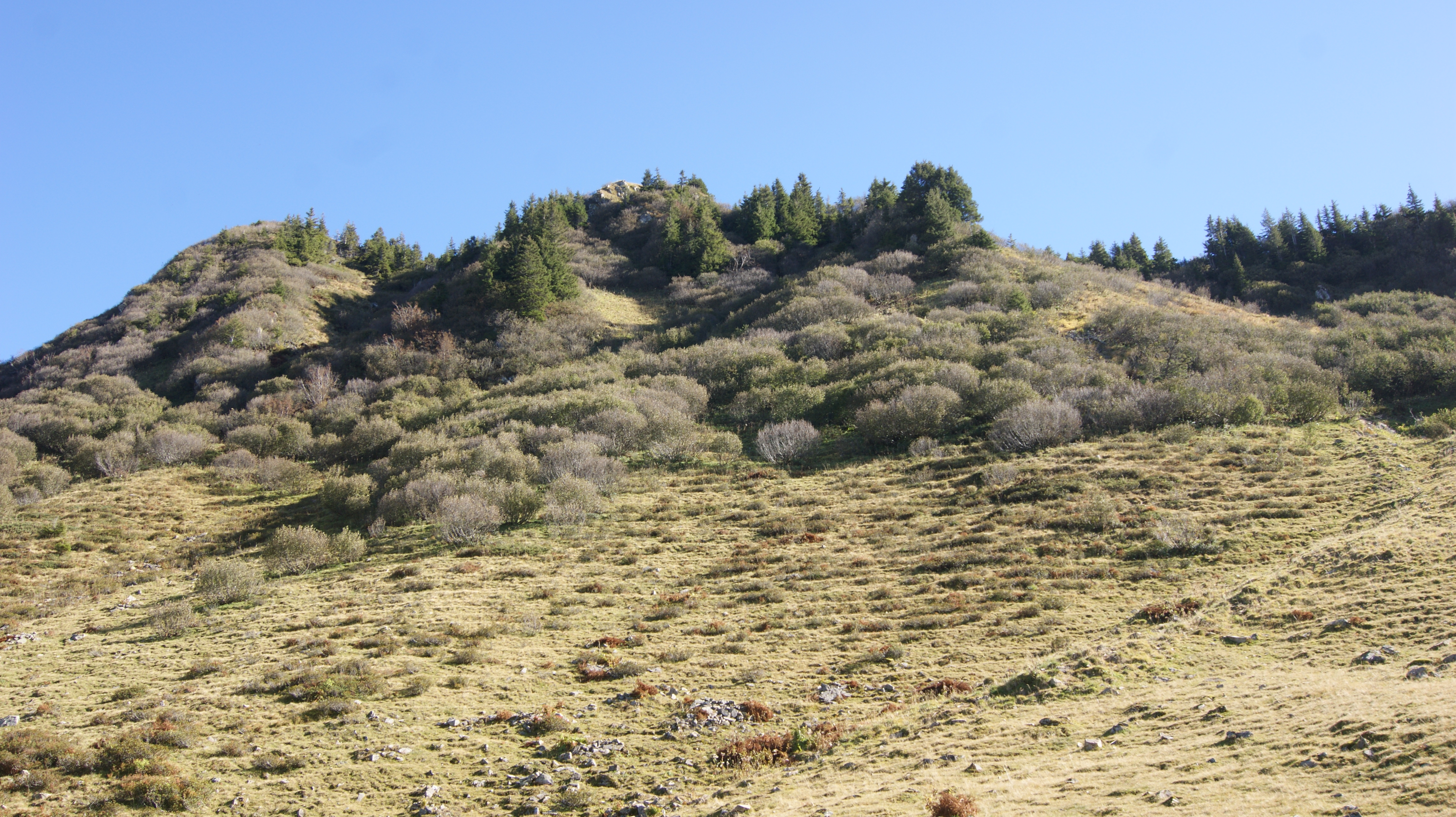 Example of subalpine-alpine vegetation on the Alpe Suens in the autumn in Dornbirn, Vorarlberg, Austria.